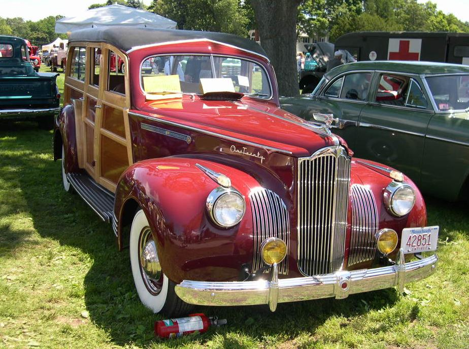 1941 Packard 120 Woody DeLuxe Source: Photographed at the Bay State Antique Automobile Club's July 10, 2005 show at the Endicott Estate in Dedham, MA by User:Sfoskett